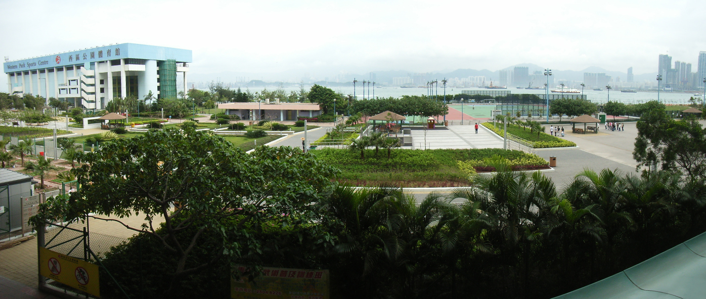 Panoramic photo of Sun Yat Sen Memorial Park